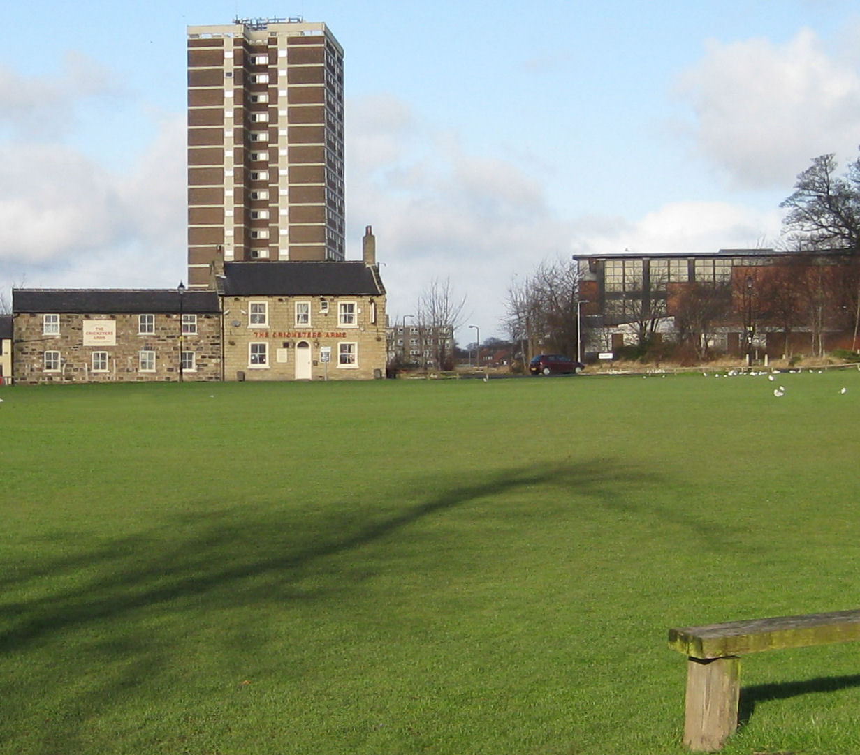 The Green, Seacroft, Leeds LS14. From the South corner (by St James's Church) showing the Cricketer's Arms, Queensview Flats behind, shopping centre to right